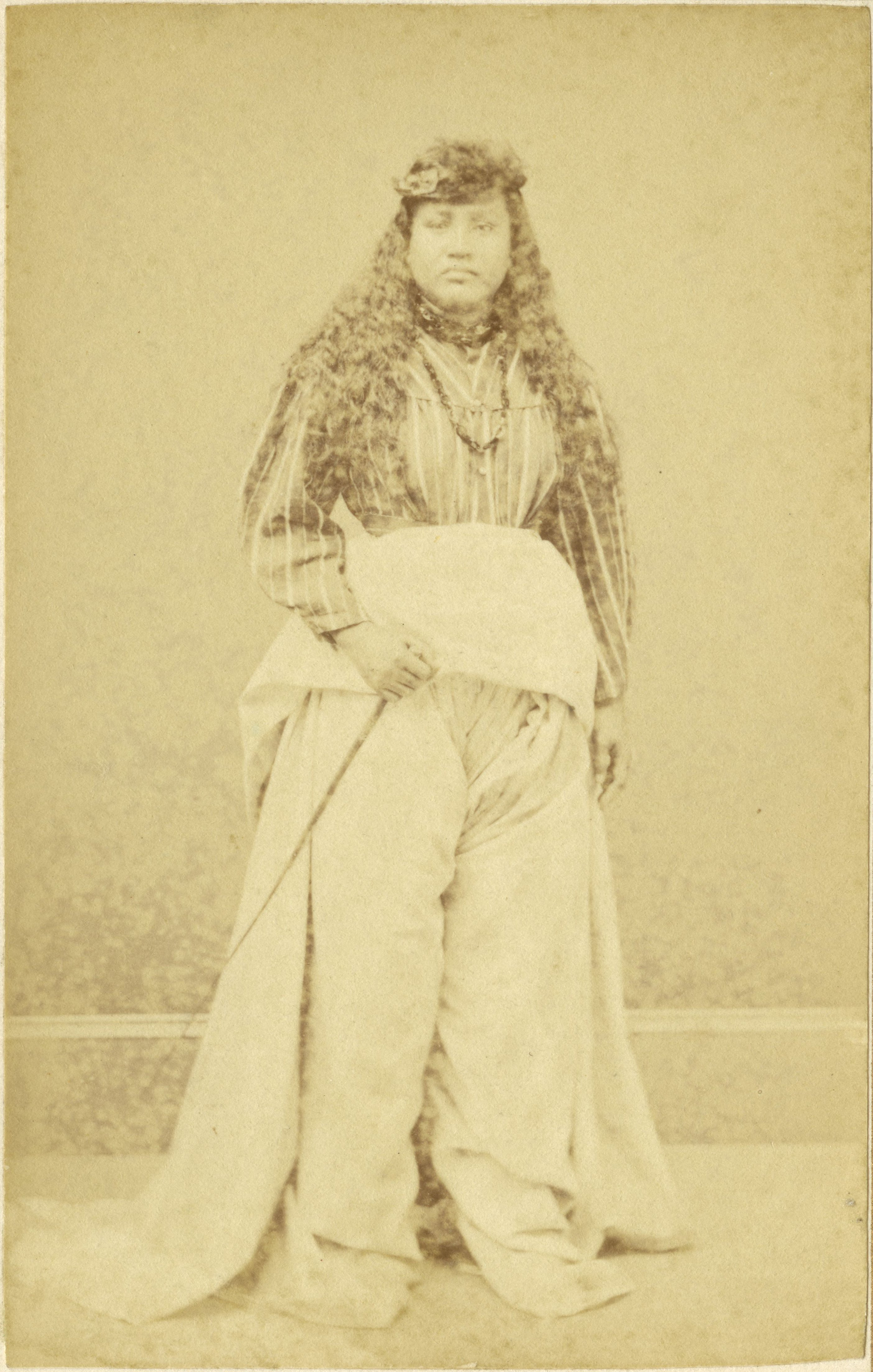 Inscriptions: Inscribed - Verso - Hawaiian Riding Dress. Quantity: 1 b&w original photographic print(s). Format: 1 b&w original photographic print(s), Albumen photoprints, Cartes de visite, Portraits, Single photograph.